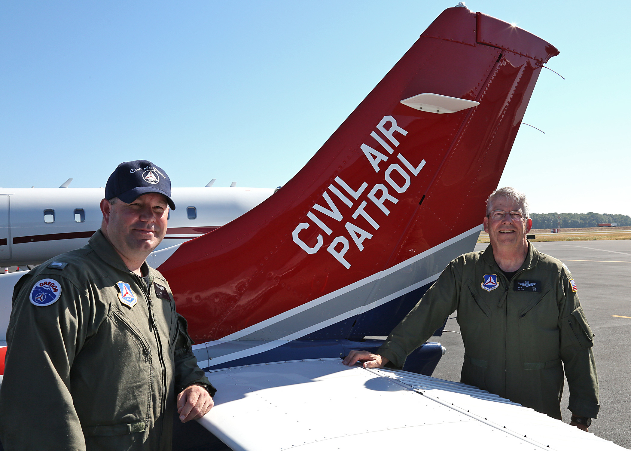 Oregon Civil Air Patrol pilot, 1st Lt. Chris Taylor (left) and mission observer Lt. Col. Nick Ham, pose for a photo with a Cessna 182 Skylane they flew to support a Aerospace Control Alert CrossTell live-fly training exercise on July 26, 2018 in Portland, Ore. The training exercise gives Air National Guard Wings, Civil Air Patrol, and U.S. Coast Guard rotary-wing air intercept units a opportunity to hone their skills with tactical-level air-intercept procedures. (U.S. Air National Guard photo by Airman First Class Mckenzie Airhart)